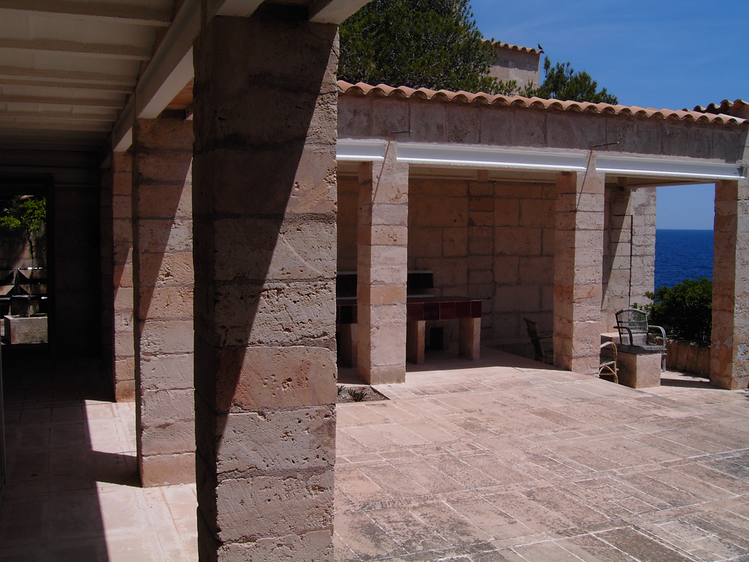 Can Lis, Jørn Utzon's house on Mallorca.